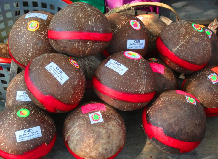 Kalamay, also spelled calamay, flavoured with peanut butter. Kalamay is a sweet viscous dessert from the Philippines traditionally packaged into empty coconut shells.